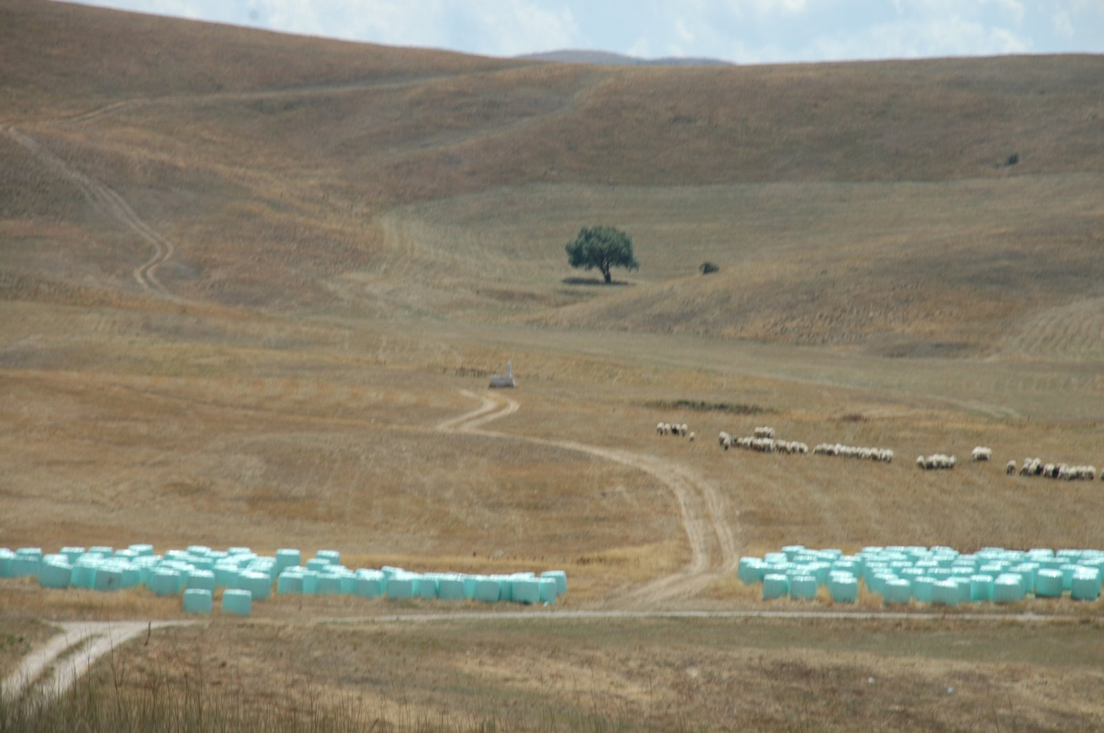 Sheep by the road, Morine plateau